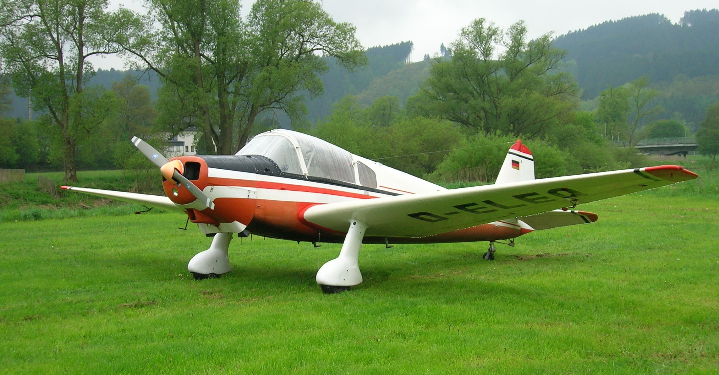 Klemm Kl 107 C D-ELEQ